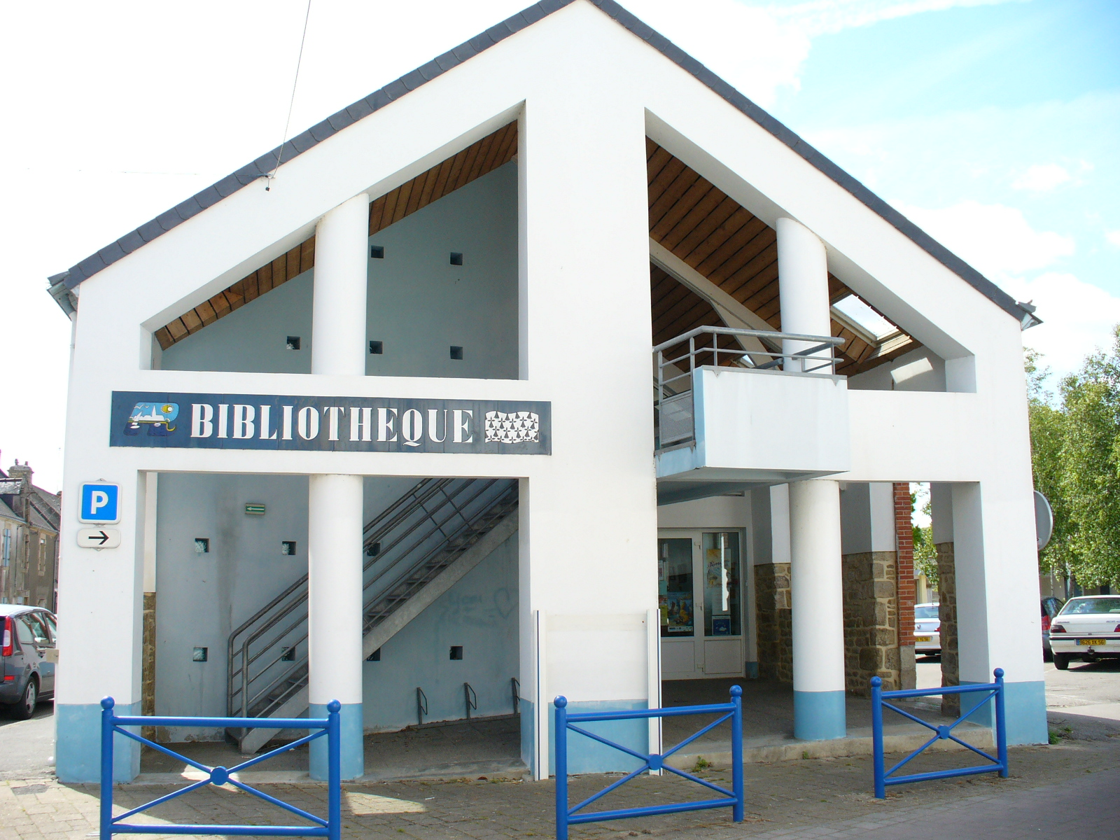 Riantec